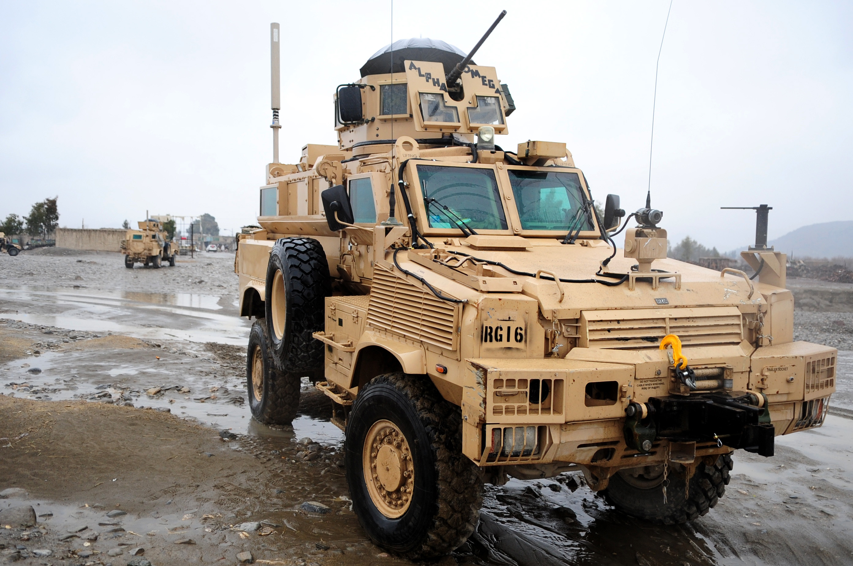 U.S. Army Soldiers from Delta Company, 1st Battalion, 501st Infantry Regiment, 4th Brigade, 25th Infantry Division provide security for a route clearance patrol through the Sabari District of Afghanistan, Jan. 28, 2010.